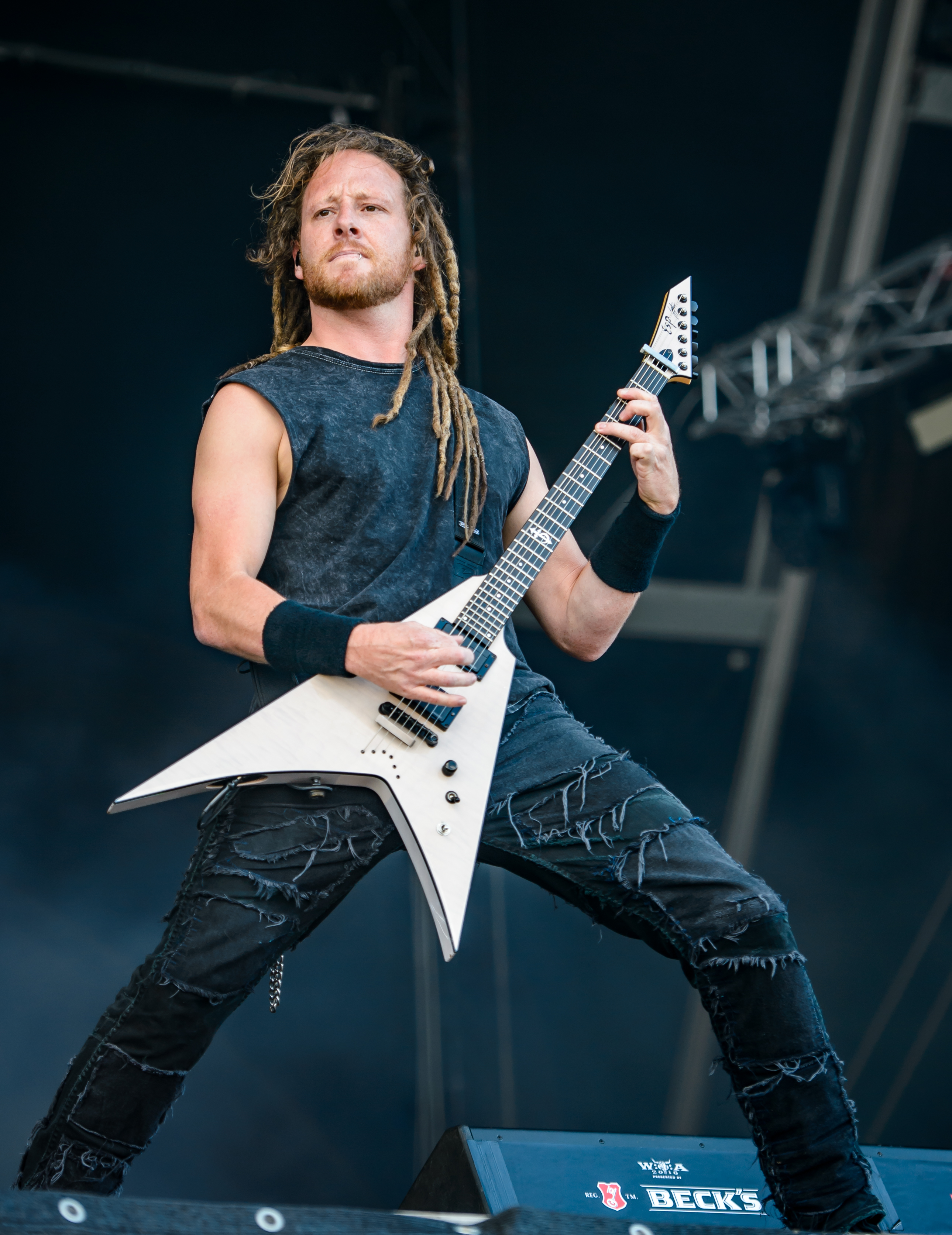 DevilDriver; Wacken Open Air 2016